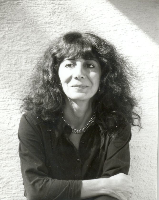 Farideh Akashe-Boehme